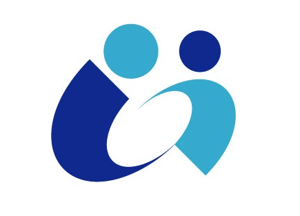 Flag of Ibigawa Gifu